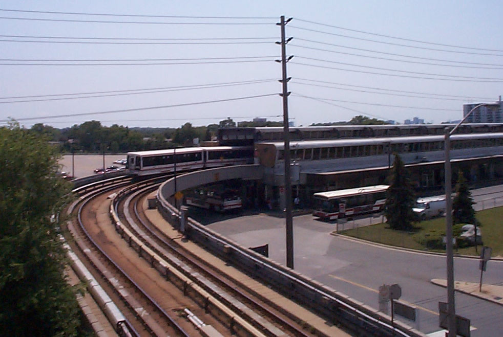 A photograph of Kennedy Station in Toronto, taken by submitter